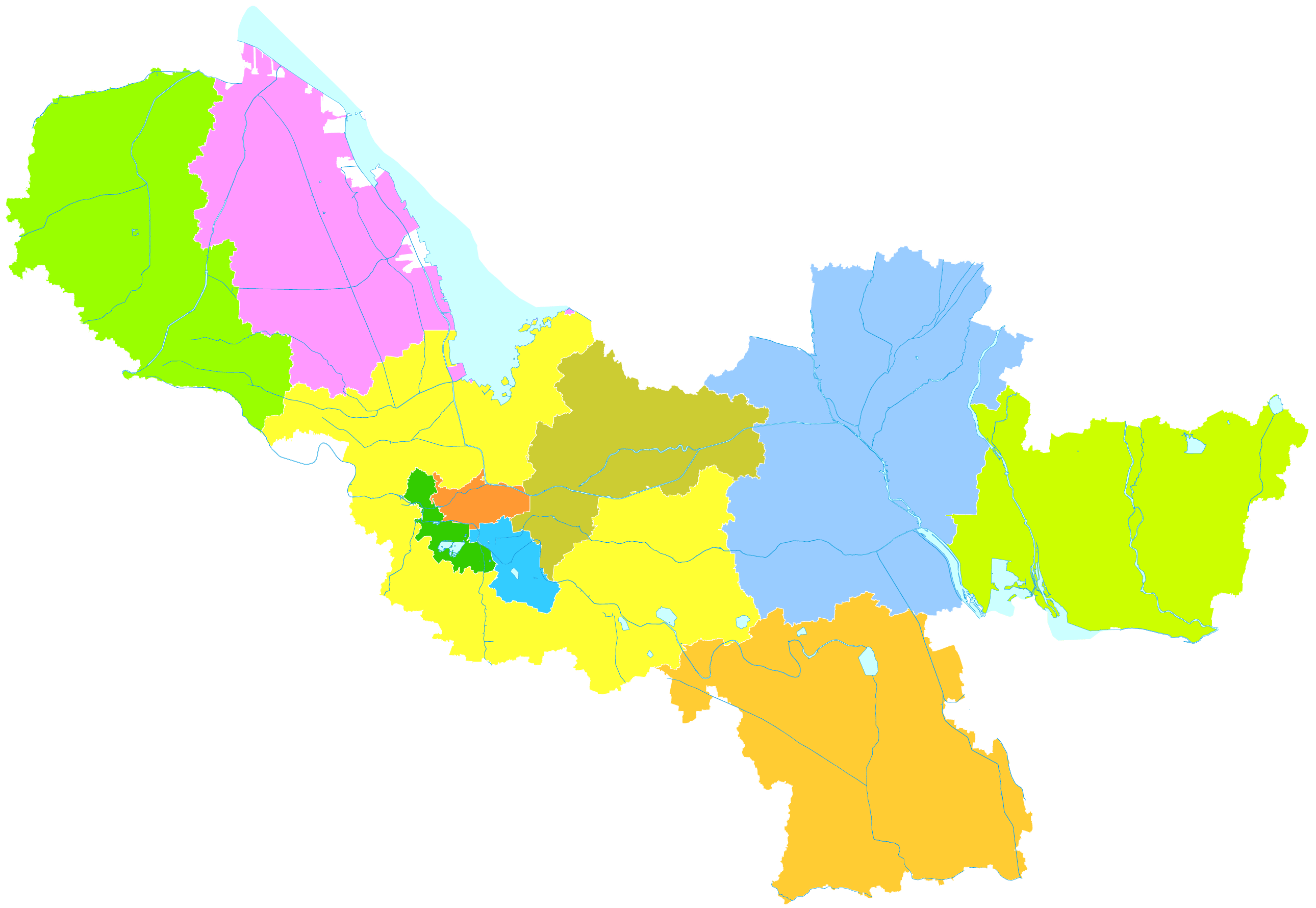 administrative divisions of Xuzhou City, Jiangsu, China